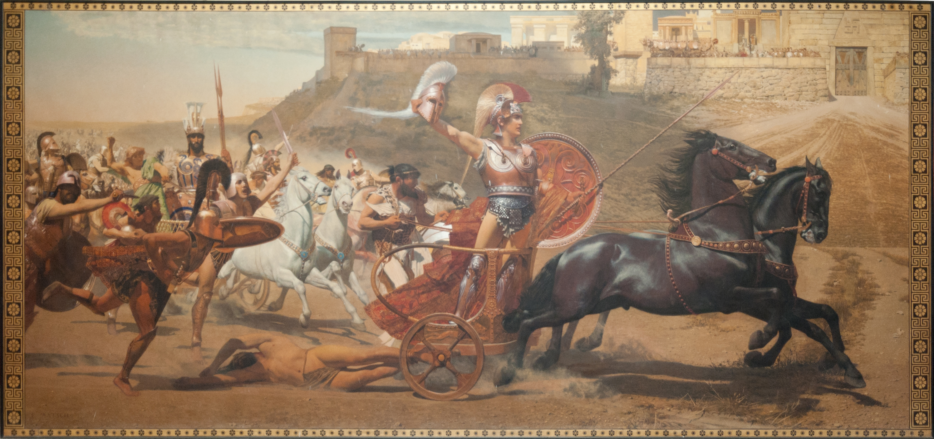 Achilles dragging the dead body of Hector in front of the gates of Troy. The original painting is a fresco on the upper level of the main hall of the Achilleion at Corfu, Greece.